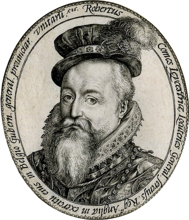 Robert Dudley Earl of Leicester (1532–1588) as Governor-General of the United Provinces 1586–1587. Engraving by Hendrik Goltzius. R.C. Strong and J.A. van Dorsten: Leicester's Triumph, Oxford University Press, 1964, facing p. 64. [1] [2]